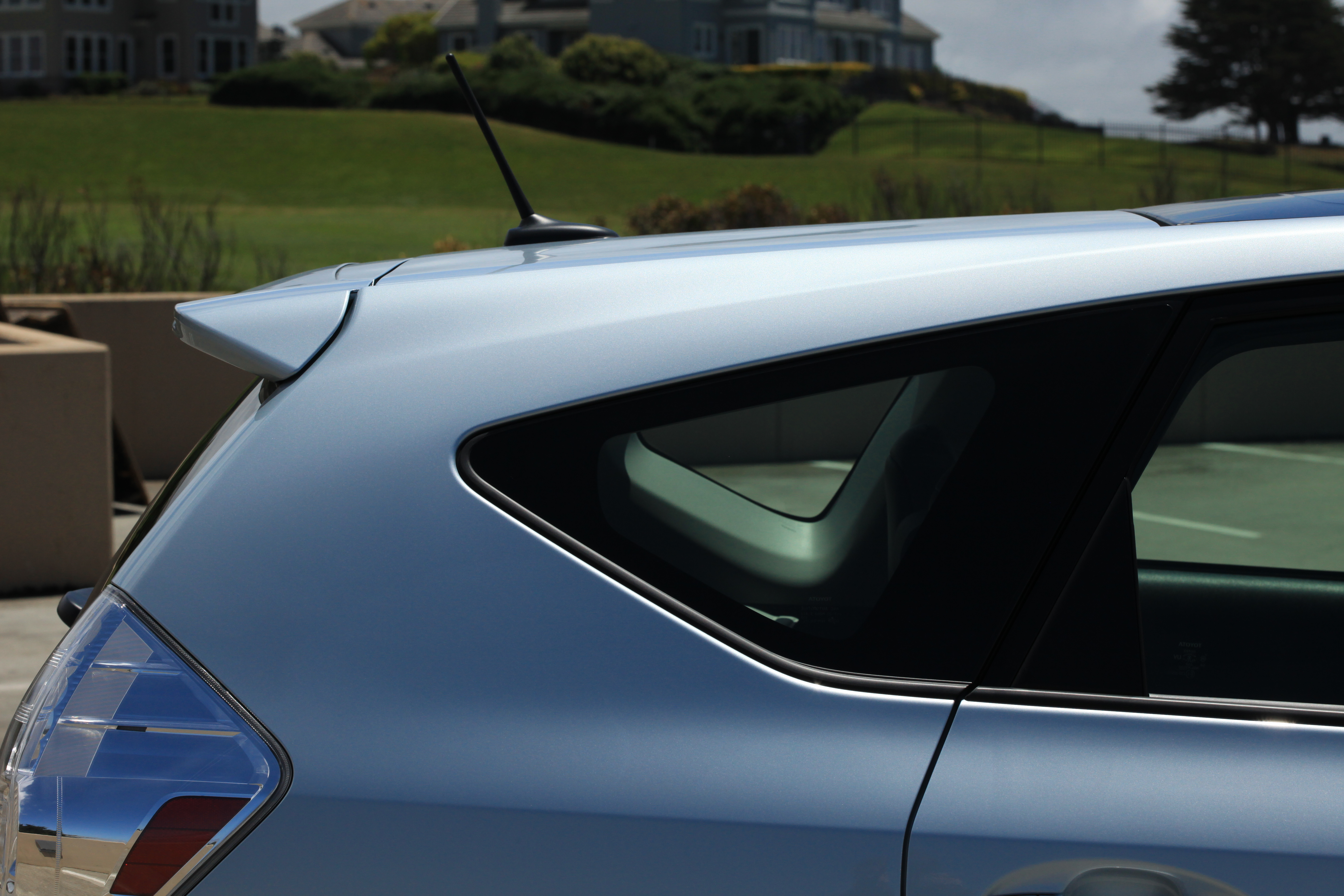 Rear lateral view 2012 Toyota Prius v